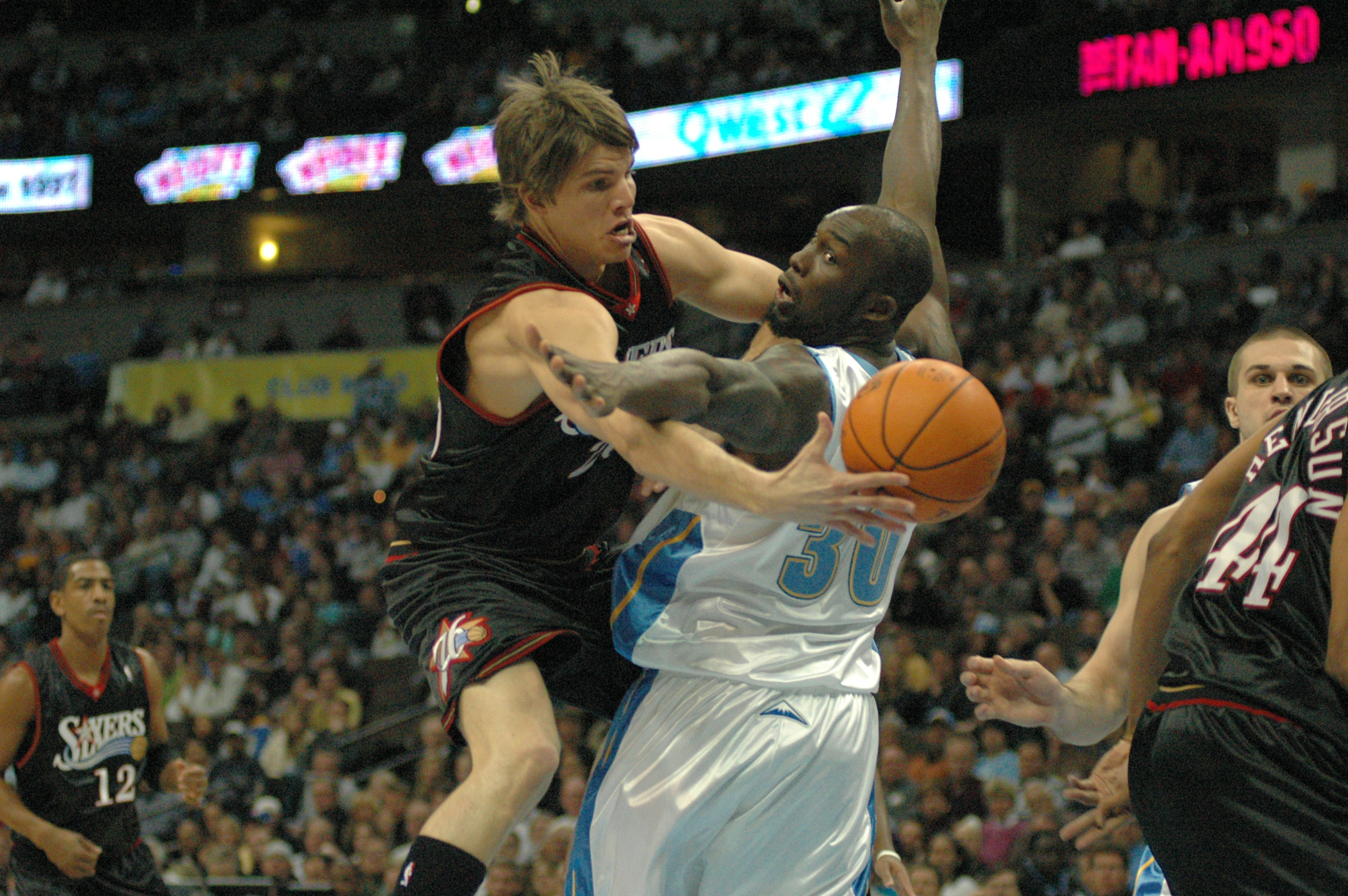 Philadelphia forward Kyle Korver (#26 left) attempts to get past Denver forward Reggie Evans (#30) Tuesday, while playing the Philadelphia Sixers at the Pepsi Center. [Arthur Mouratidis]